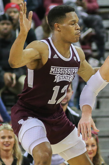 Photo by Chris Gillespie